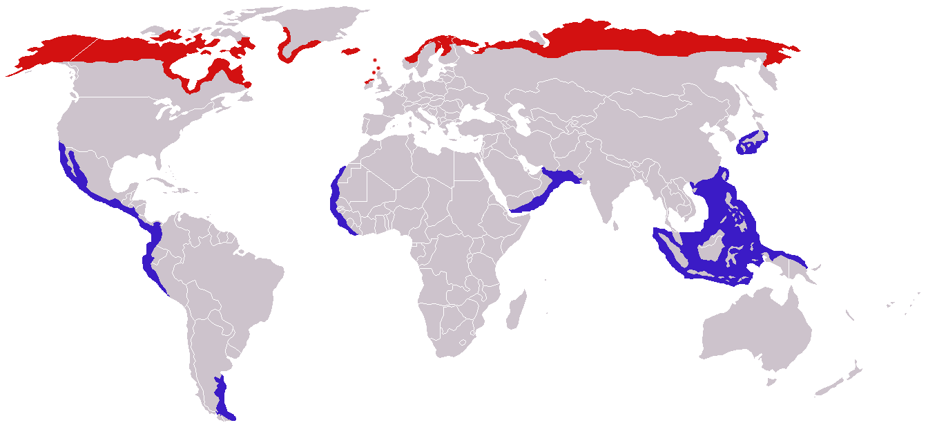 Range map of the Red-necked Phalarope: Breeding grounds (red) and wintering grounds (blue)